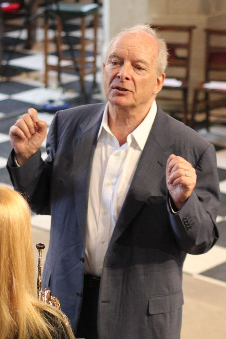 Christopher Hogwood at a rehearsal for a Gresham College lecture in 2014.